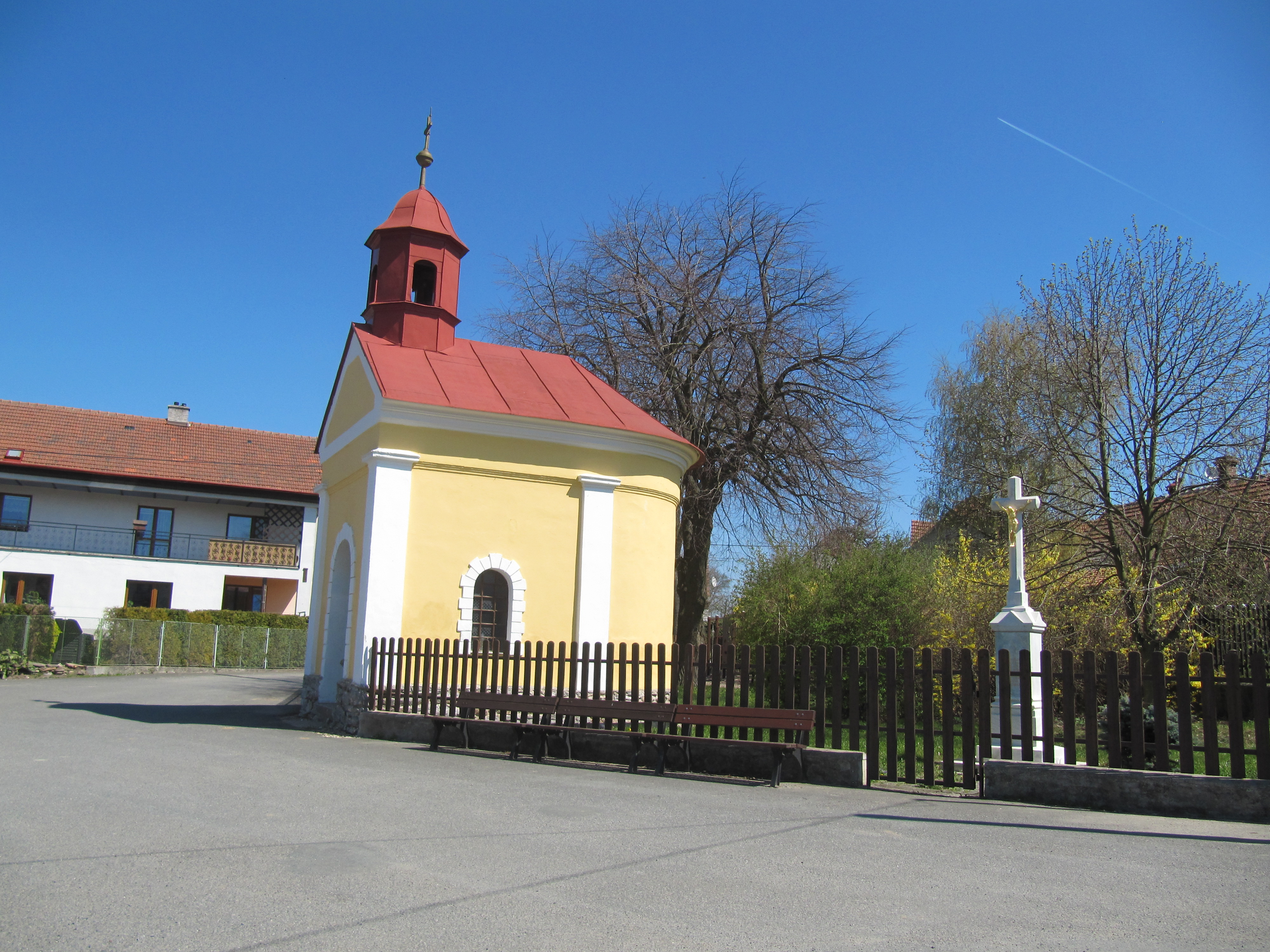 Bystřice nad Pernštejnem, Žďár nad Sázavou District, Czechia, part Bratrušín.